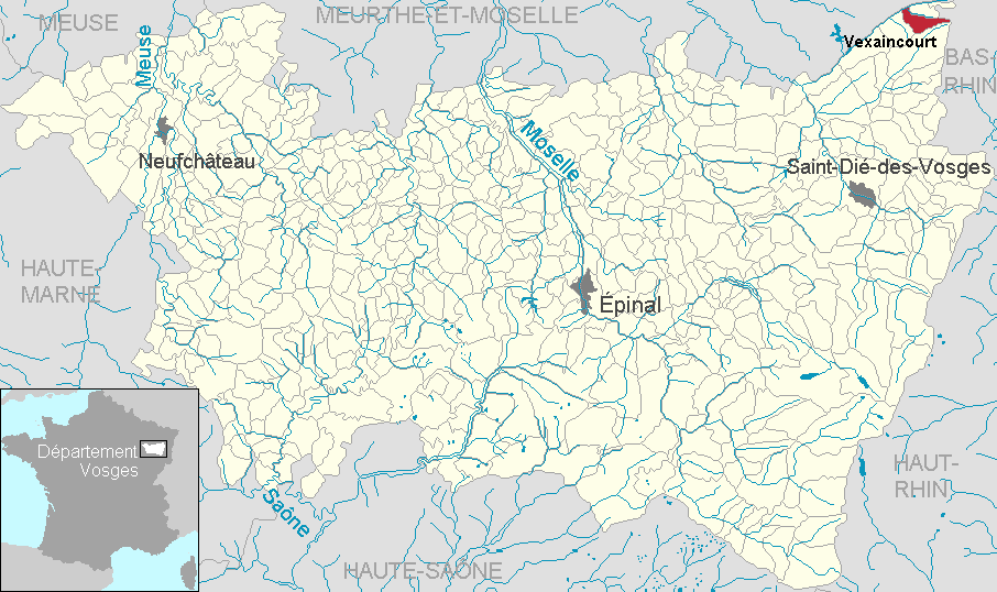 Vexaincourt in the department of Vosges, Lorraine, France